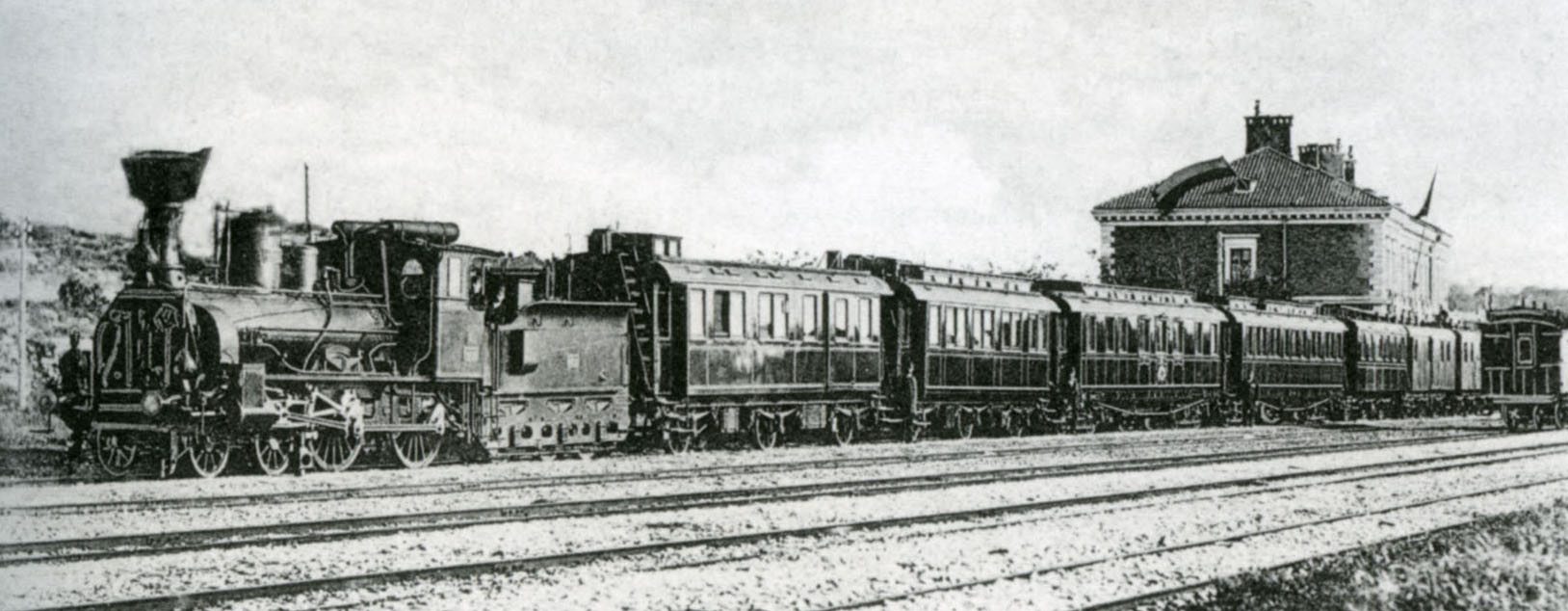 Private Train of Emperor Franz Joseph of Austria built in 1891 at Ringhofer in Prag, parked in the Station of Pula.